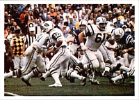 A football card from the 1986 Jeno's Pizza NFL football card stickers set of New York Jets quarterback Joe Namath running a play against the Baltimore Colts during Super Bowl III. The card is numbered #37 in the set. The back of the card reads: HELLO, WORLD, WELCOME TO THE AFL Joe Namath (12) directs the New York Jets' attack, as he and his teammates shock the the Baltimore Colts 16-7 to win Super Bowl III. Several days before the game, Namath, speaking at a dinner, said: "We're going to win Sunday, I'll guarantee you." The Colts were favored by three touchdowns to give the NFL its third consecutive victory over the AFL.